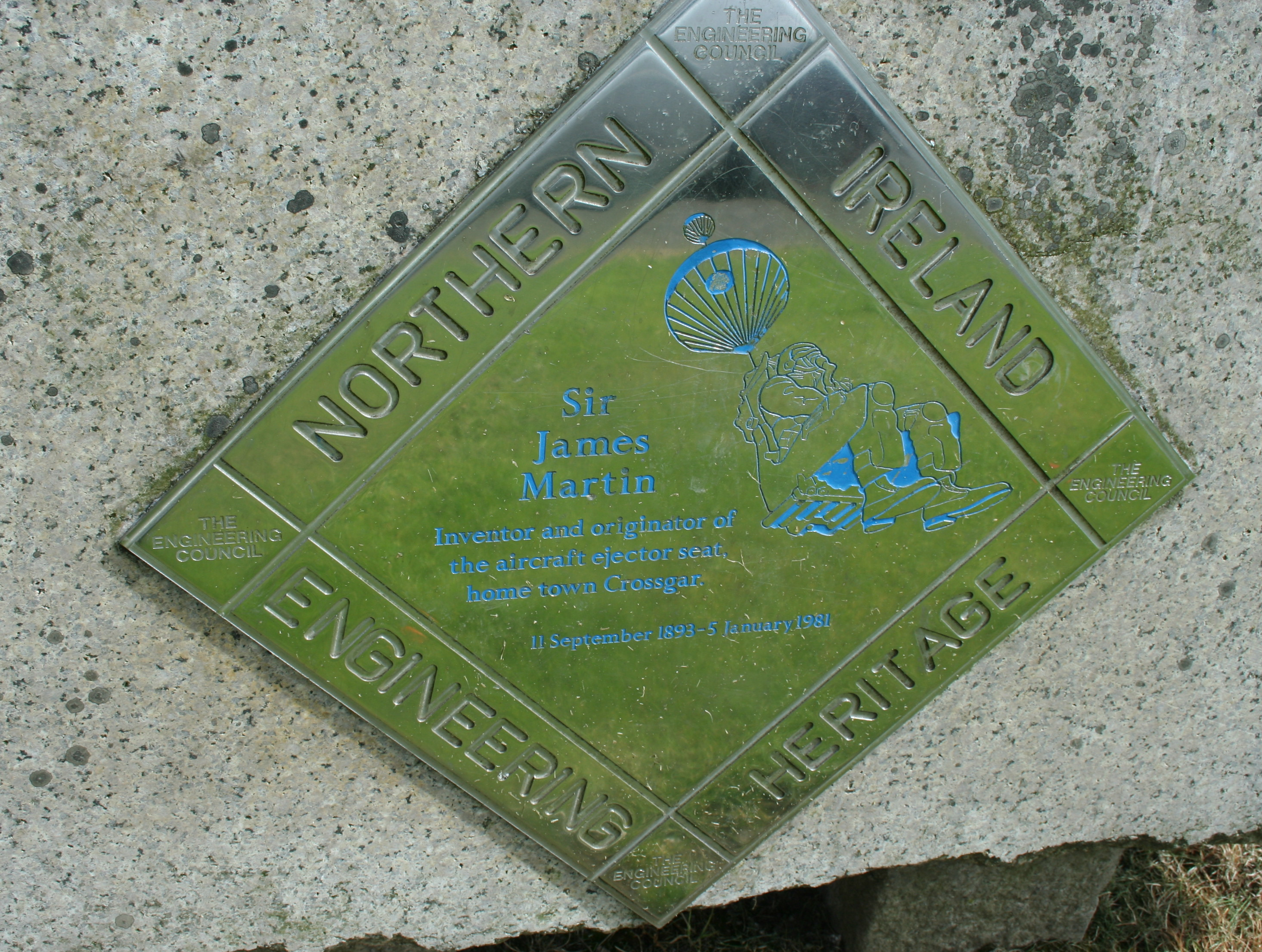 Plaque to Sir James Martin, Crossgar Credit: A Peter Clarke image